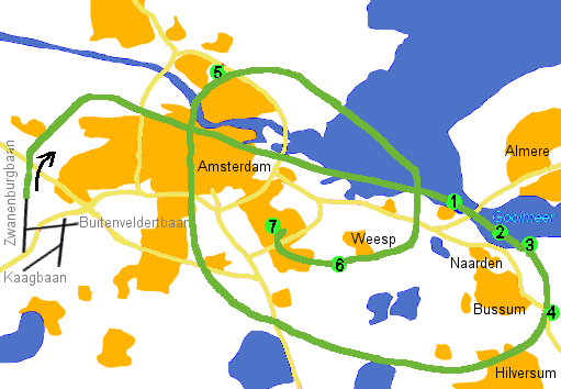 Some minutes before the crash Engines 3 and 4 break off. Engines 3 and 4 come down. First "mayday" broadcast by the pilot Pilot reports fire in the engine Pilot reports problems with the flaps Aircraft becomes totally uncontrollable Crash of the aircraft.